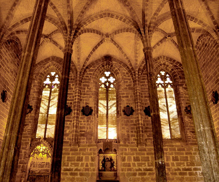 Chaper House from Sant Dominic's Covent in Valencia